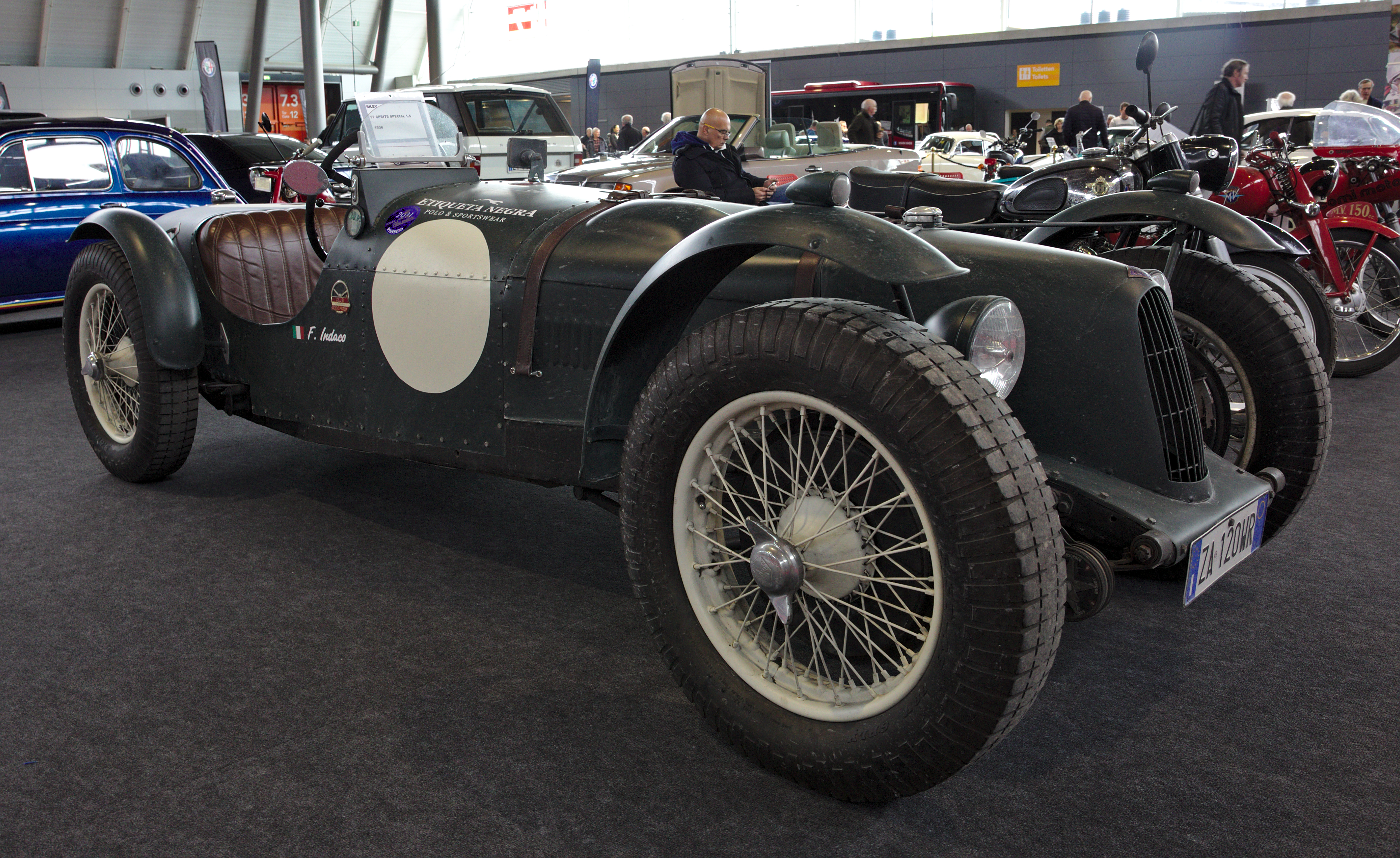 Riley TT Sprite Special 1.5 at Retro Classics 2018